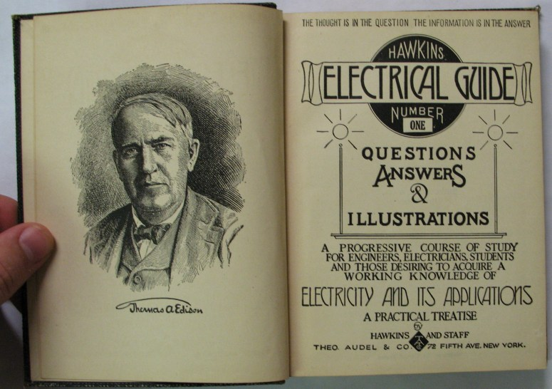 Photo of the title page of the 1917 Hawkins Electrical Guide. This body of work contains extensive electrical diagrams and images that would be useful to expand the quality of articles on Wikipedia.